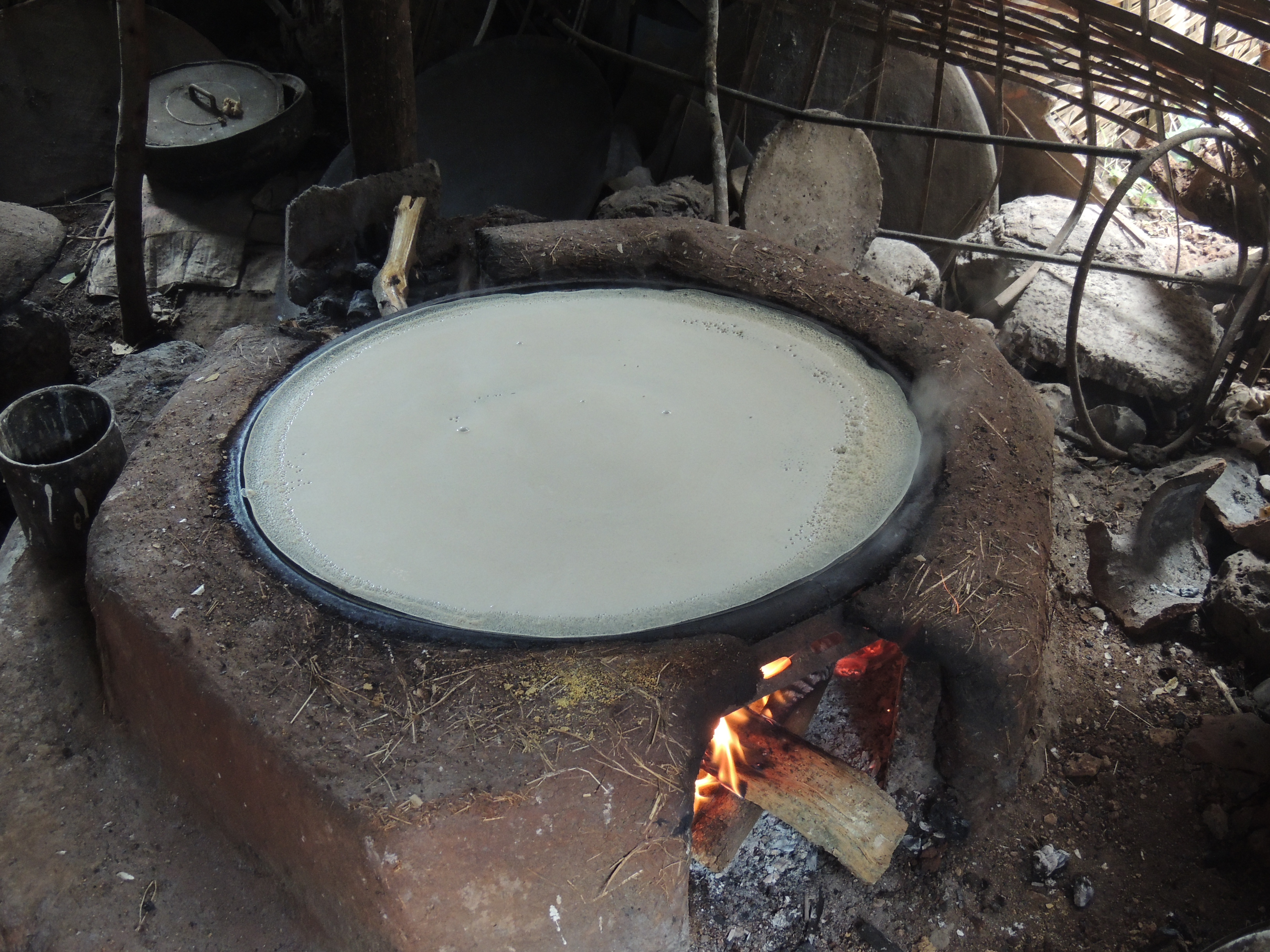 Injera is a typical food of Ethiopia. It is made particularly from Teff Powder. Its like a pancake on which different sauces made from grains and meat will be put on and ate together.It can also be eaten fresh on its own. It is also prepared from Maize, Sorghum, Wheat and Barley flours. It has a life span of 3 - 4 days once baked, with a bit of sour taste as it stays longer. አማርኛ: እንጀራ የኢትዮጵያ ተወዳጅ ምግብ ነው፤ በምስሉ ላይ እንደሚታየው በትኩሱ ምጣድ ላይ እንደተጋገረ ነው። እንጀራ ባብዛኛው ከ ጤፍ ዱቄት የሚዘጋጅ ቢሆንም ፣ ከ በቆሎ ፣ ከማሽላ ፣ ከስንዴ እና ከ ገብስ ዱቄትም ሊዘጋጅ ይችላል። እንጀራ ከ እህል እና ከ ስጋ ዘር ከሚዘጋጁ ወጦች ጋር የሚበላ ቢሆን ፣ በትኩሱ ብቻውንም ሊበላ ይችላል። ከተጋገረ በኋላ ከሶስት እስከ አራት ቀን የመቆየት አቅም ቢኖረውም ፣ ሲቆይ አፍ ላይ መጠነኛ መምረር ሊኖረው ይችላል። This is an image of food from Ethiopia